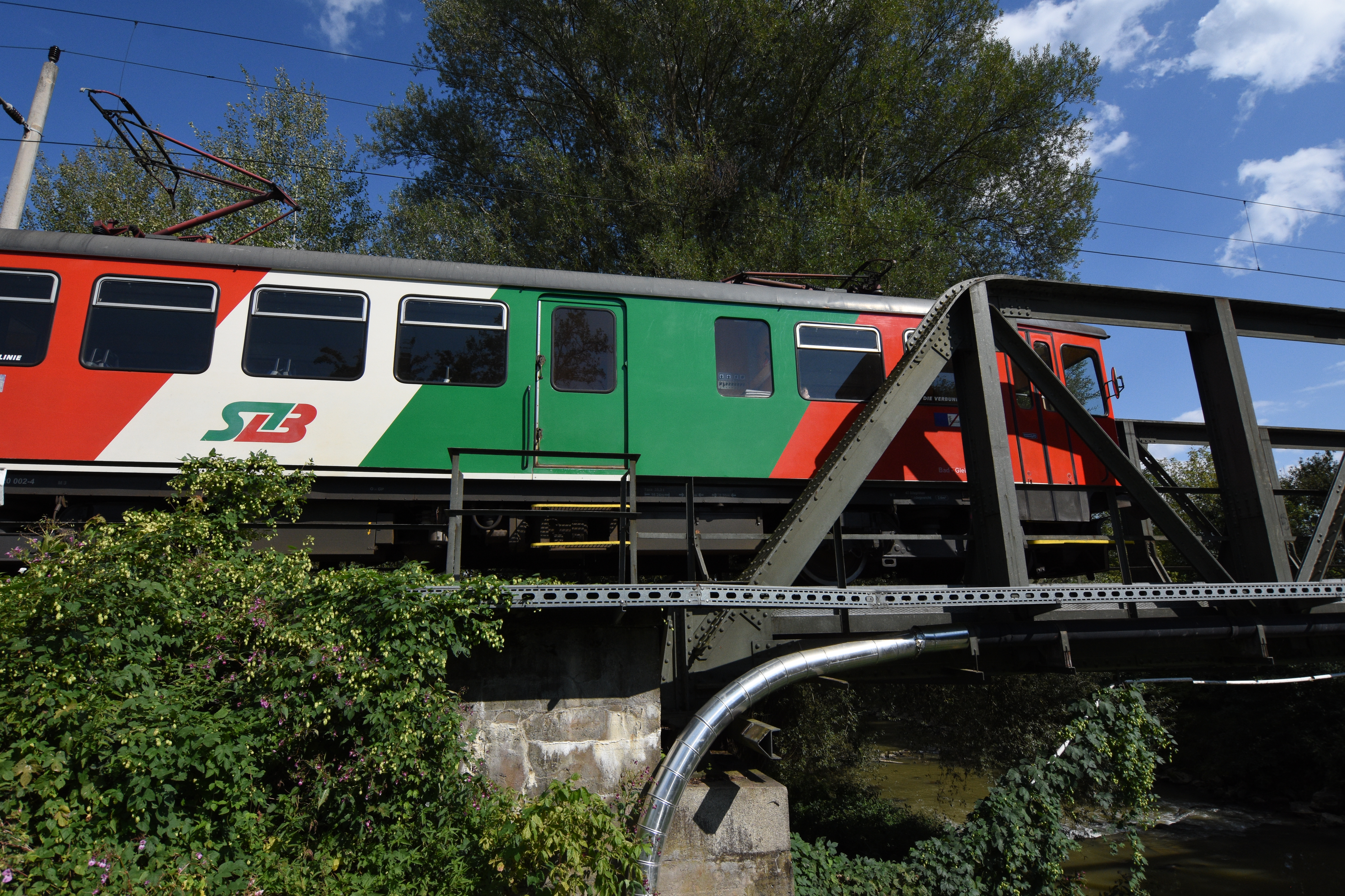 Feldbach–Bad Gleichenberg railway line